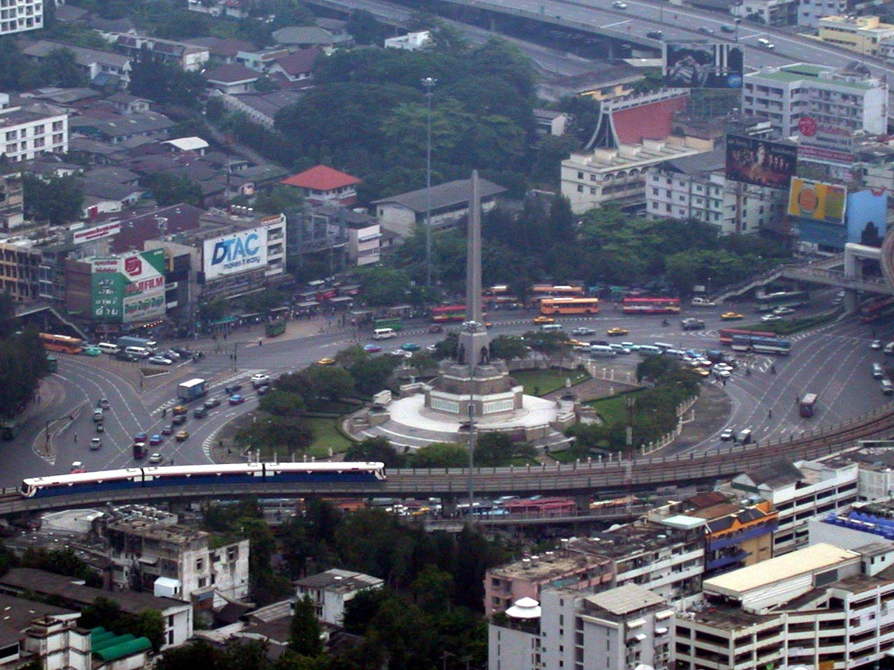 Victory Monument, Bangkok, view from Baiyoke Tower